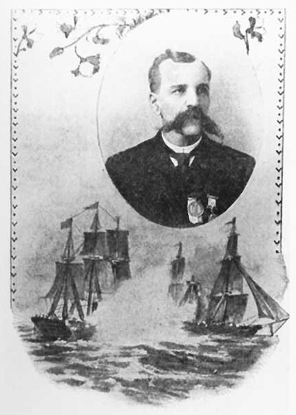 Ordinary Seaman Louis C. Shepard, United States Navy (family name also spelled Shepherd). Halftone reproduction of a photograph, published in Deeds of Valor, Volume II, page 80, by the Perrien-Keydel Company, Detroit, 1907. A member of USS Wabash's crew, Louis C. Shepard was awarded the Medal of Honor for his gallant role in the 15 January 1865 land assault on Fort Fisher.